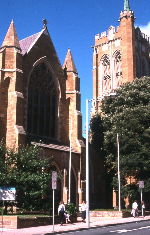 St David's Cathedral, Hobart, Tasmania, photo by Sardaka 09:58, 19 October 2007 (UTC)